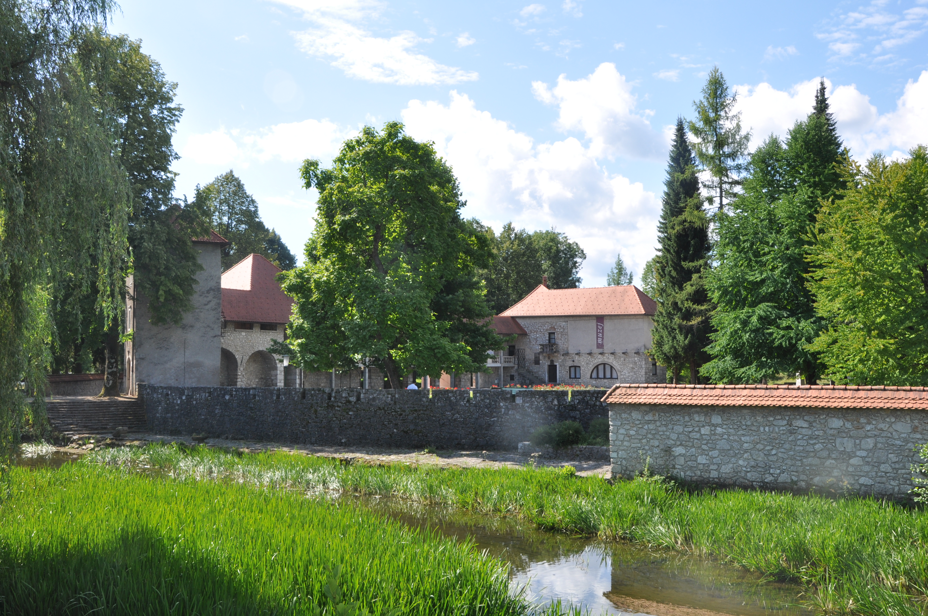 Ribnica castle, Slovenia